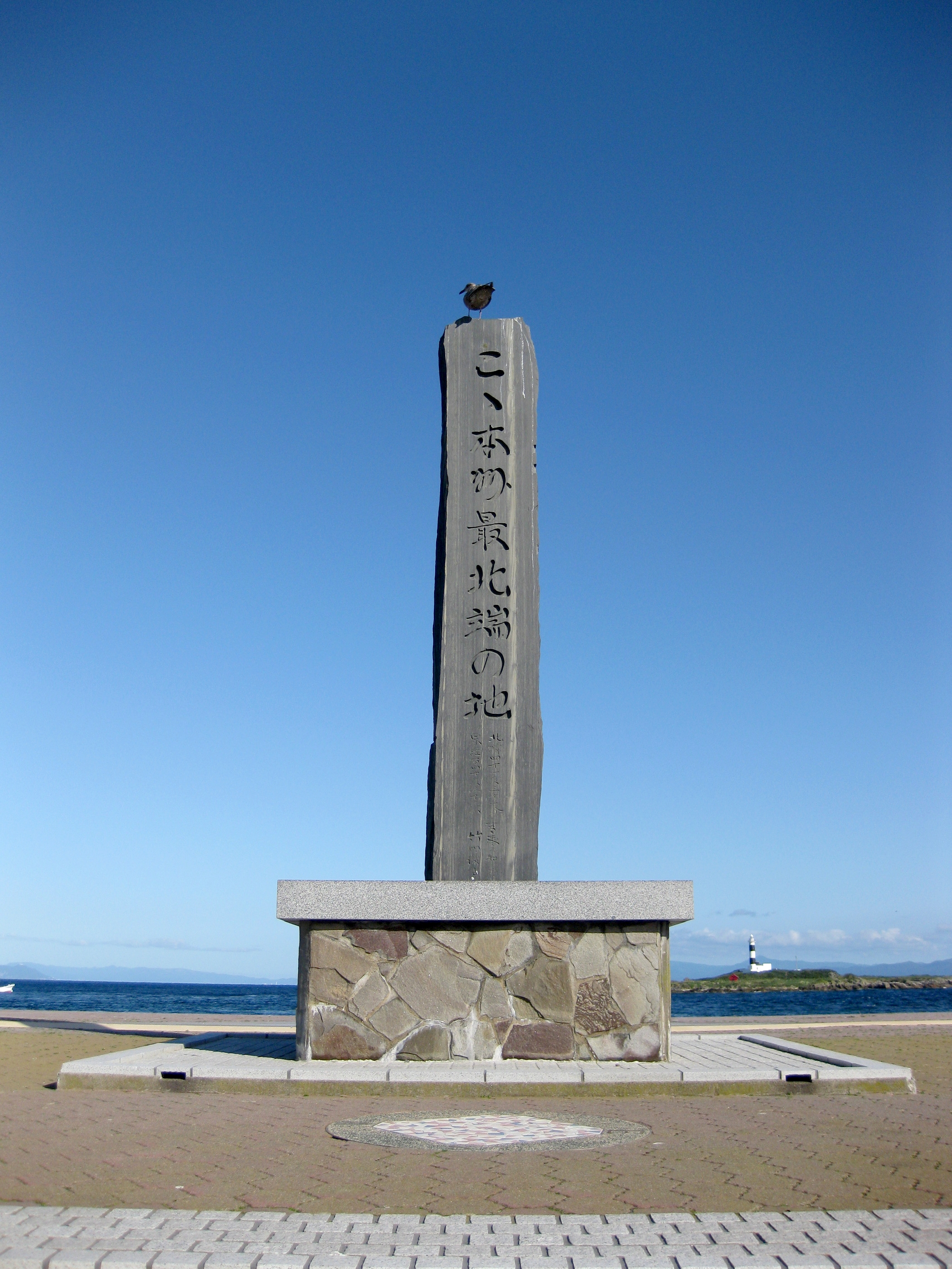 Monument of the northernmost point in Honshu at Omasaki in Oma Town, Aomori Prefecture, Japan